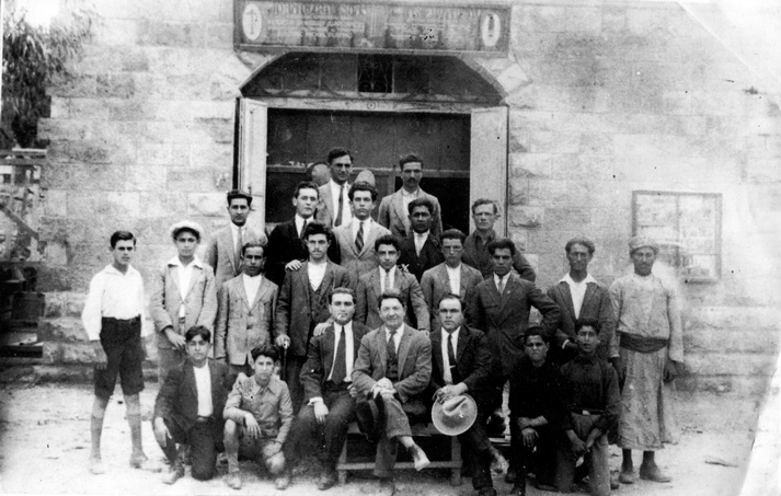 Yochanan Ezra and his sons with employees of their company on Jaffa Street.